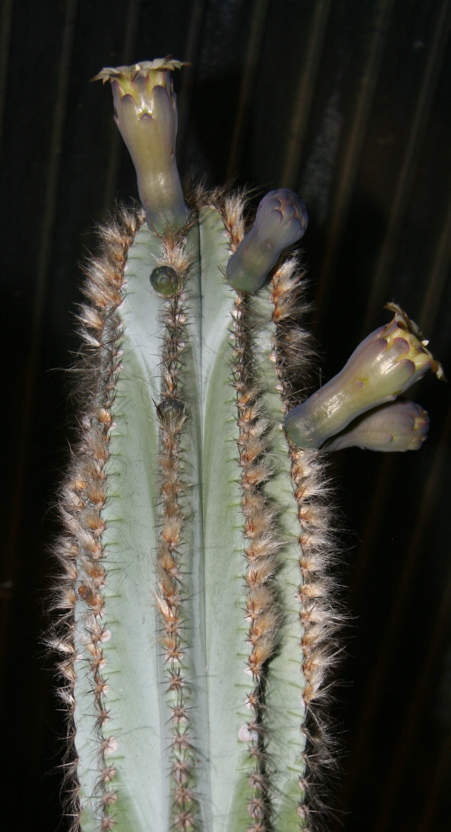 Plant from type locality, S Bahia, Brasil